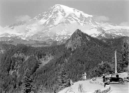 View of Mt. Rainier from Ricksecker Point